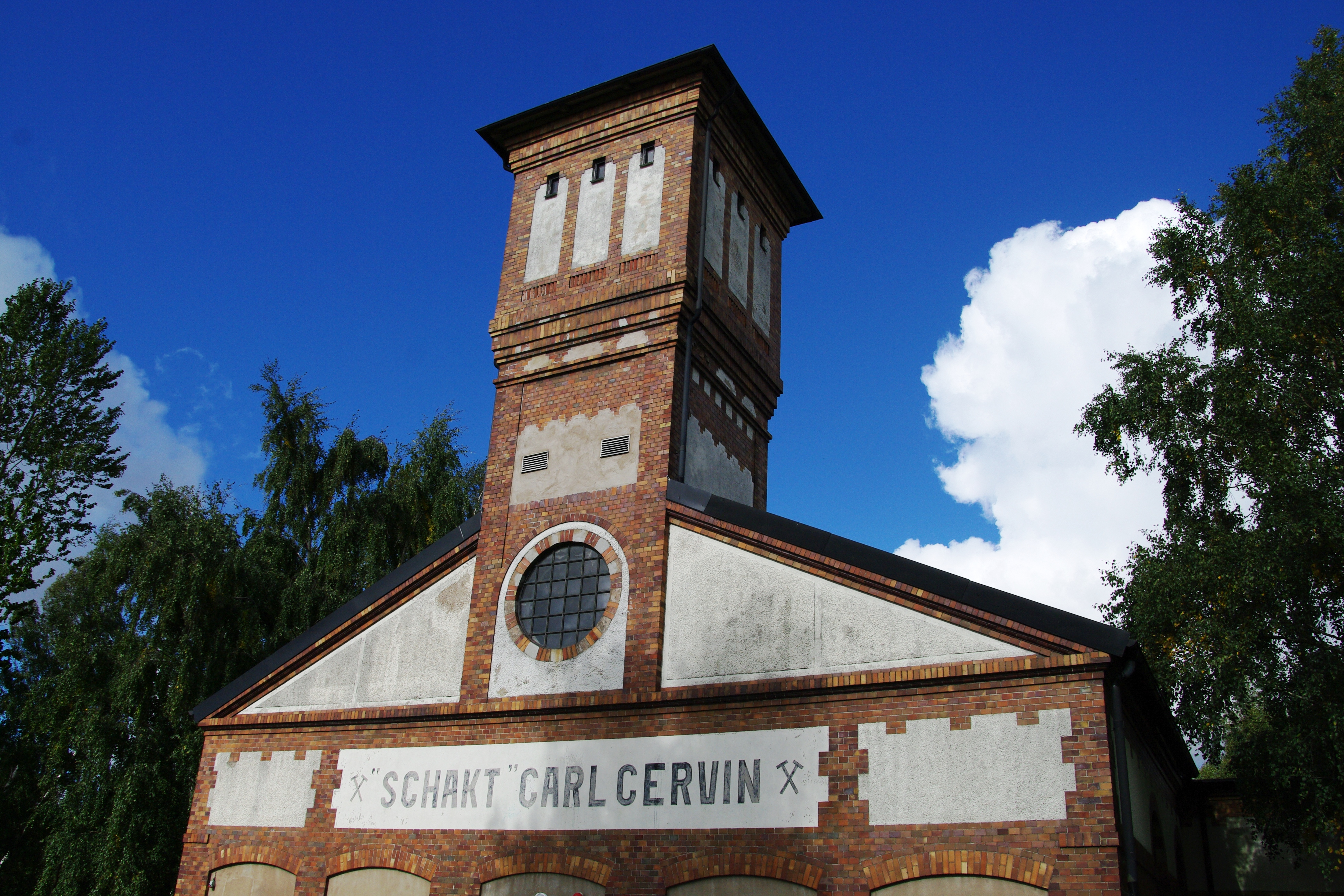 The mining museum in Nyvång tells the story about the biggest coal mine in Sweden and the mining community created around the mine.